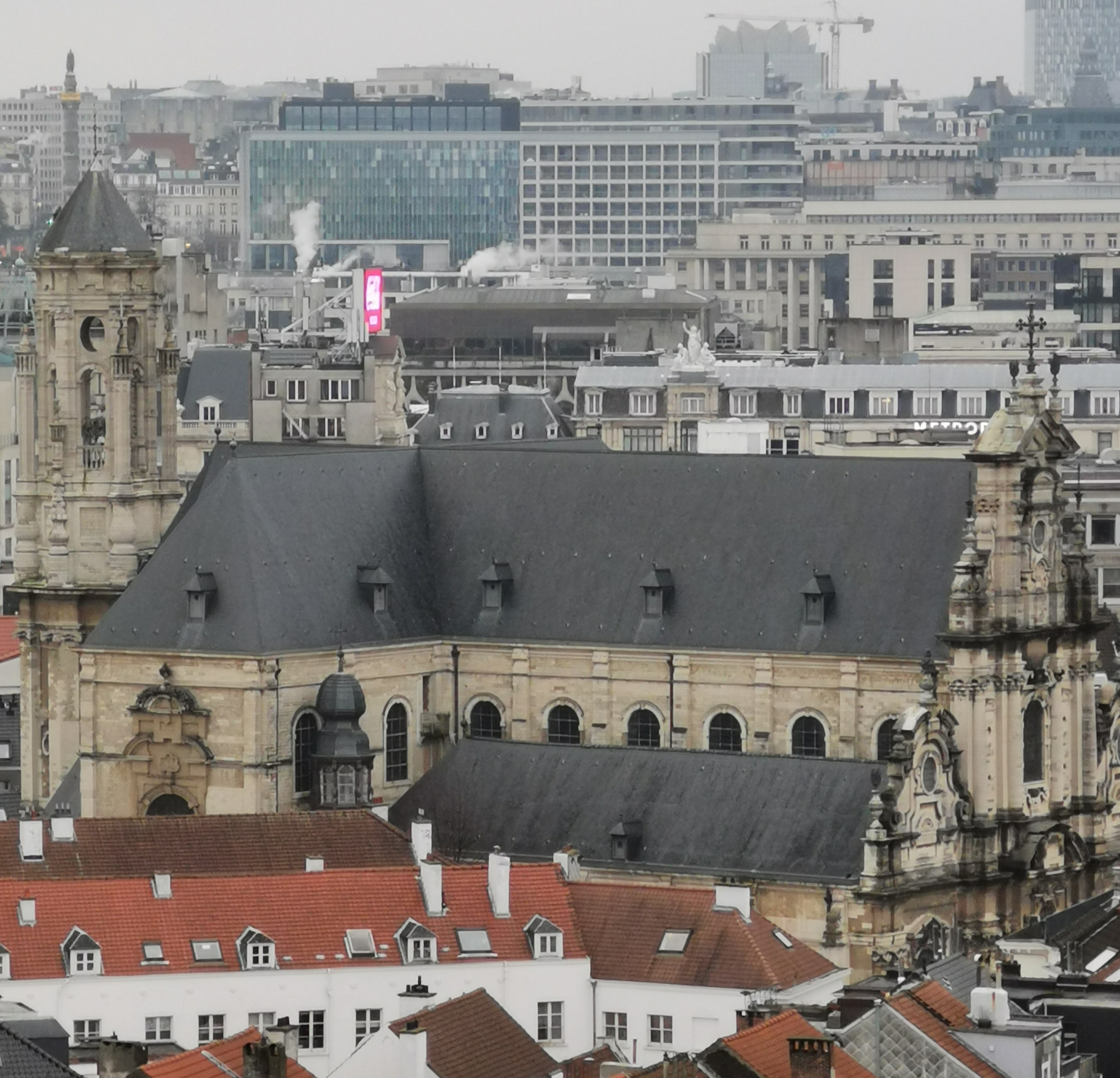 Begijnhofkerk Brussels